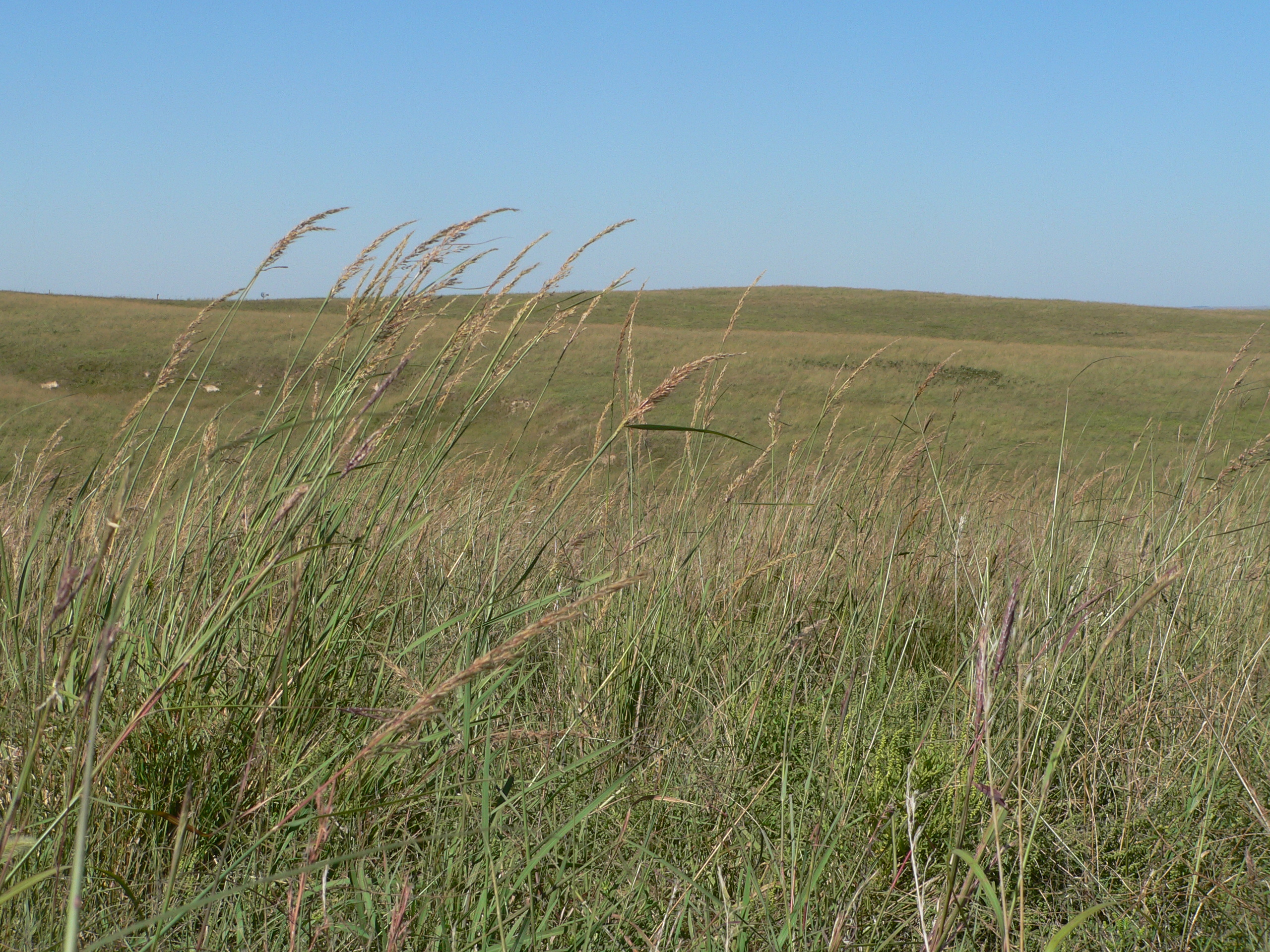 Big bluestem grass at Willa Cather Memorial Prairie, located on west side of U.S. Highway 281 just north of the Nebraska-Kansas border in southern Webster County, Nebraska.